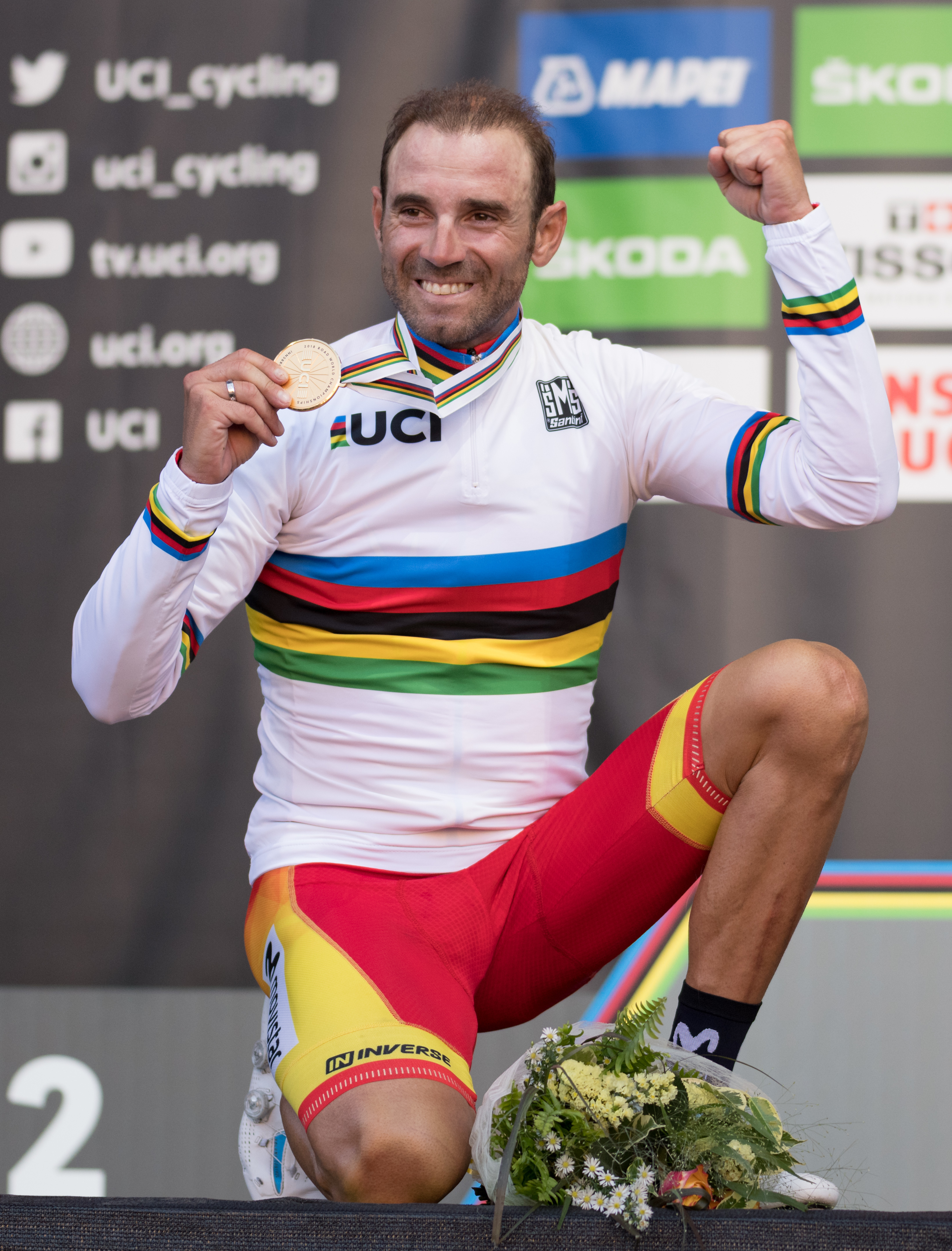 2018 UCI Road World Championships Innsbruck/Tirol Men Elite Road Race. Picture shows: Award Ceremony, winner Alejandro Valverde of Spain